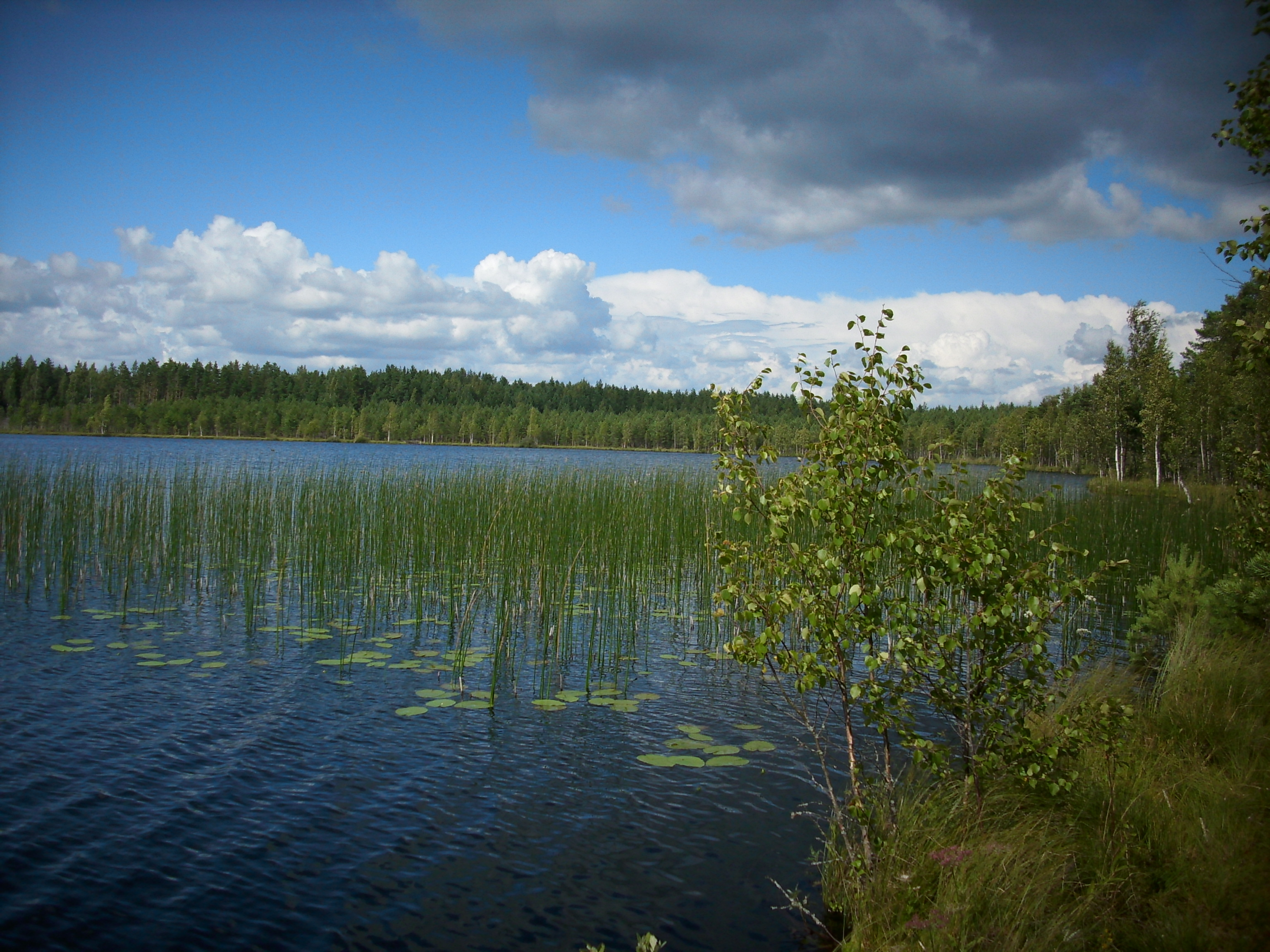 Lake in Latgale.